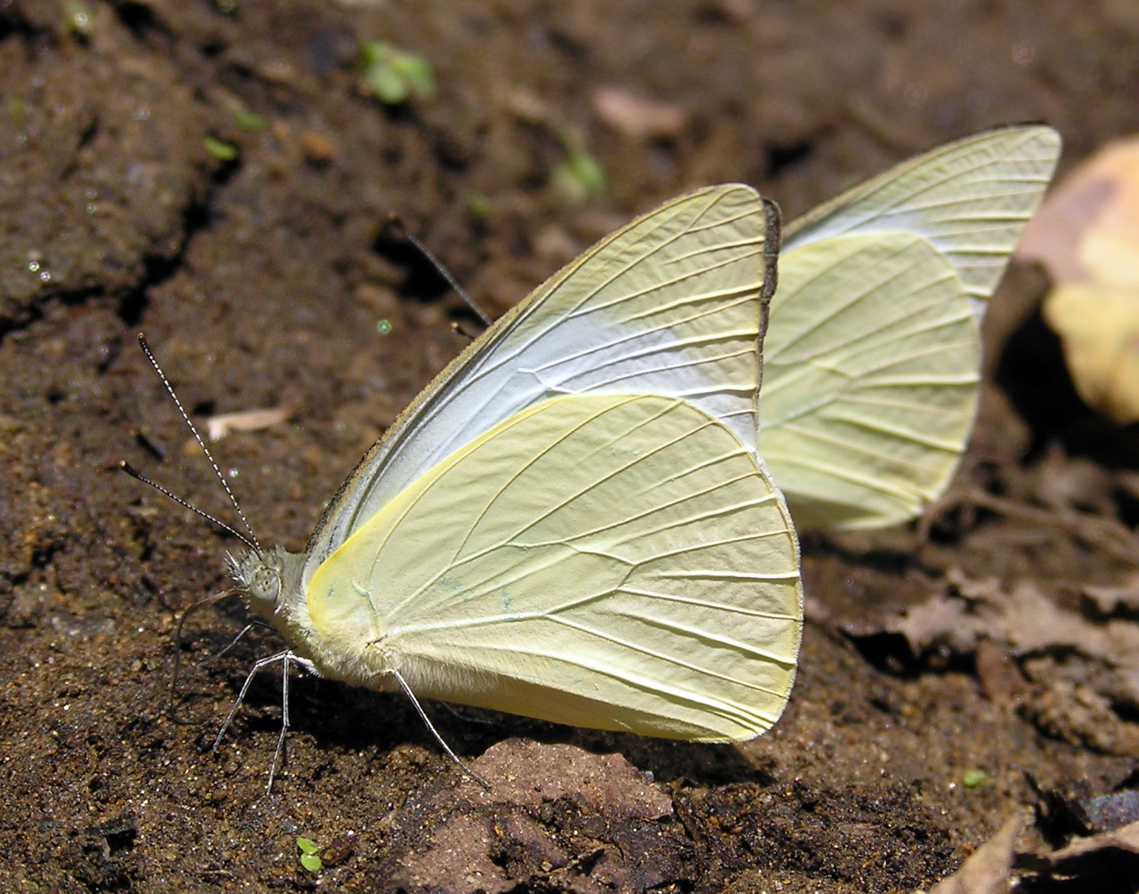 Common Albatross (Appias albina), Migratory species in Western Ghats and Himalayas